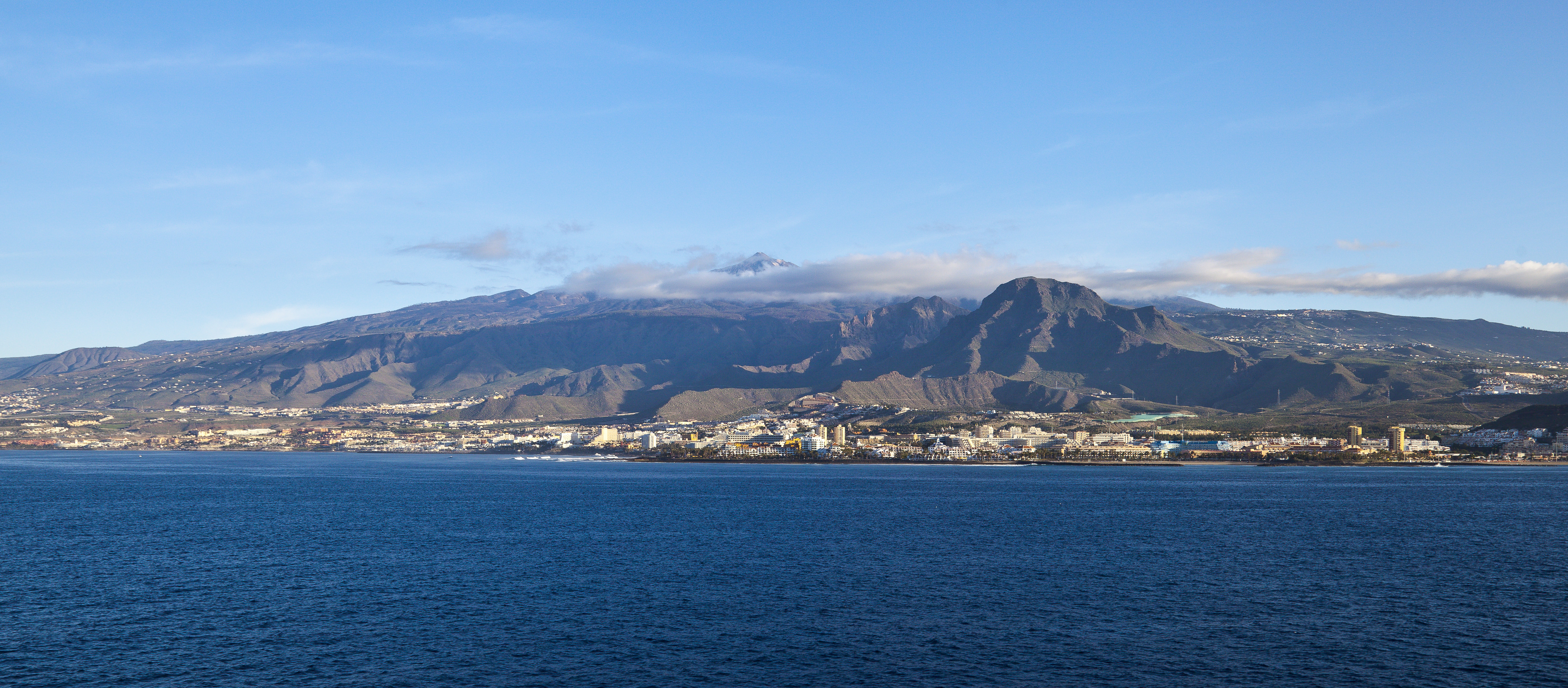 View of Los Cristianos, Tenerife, Spain